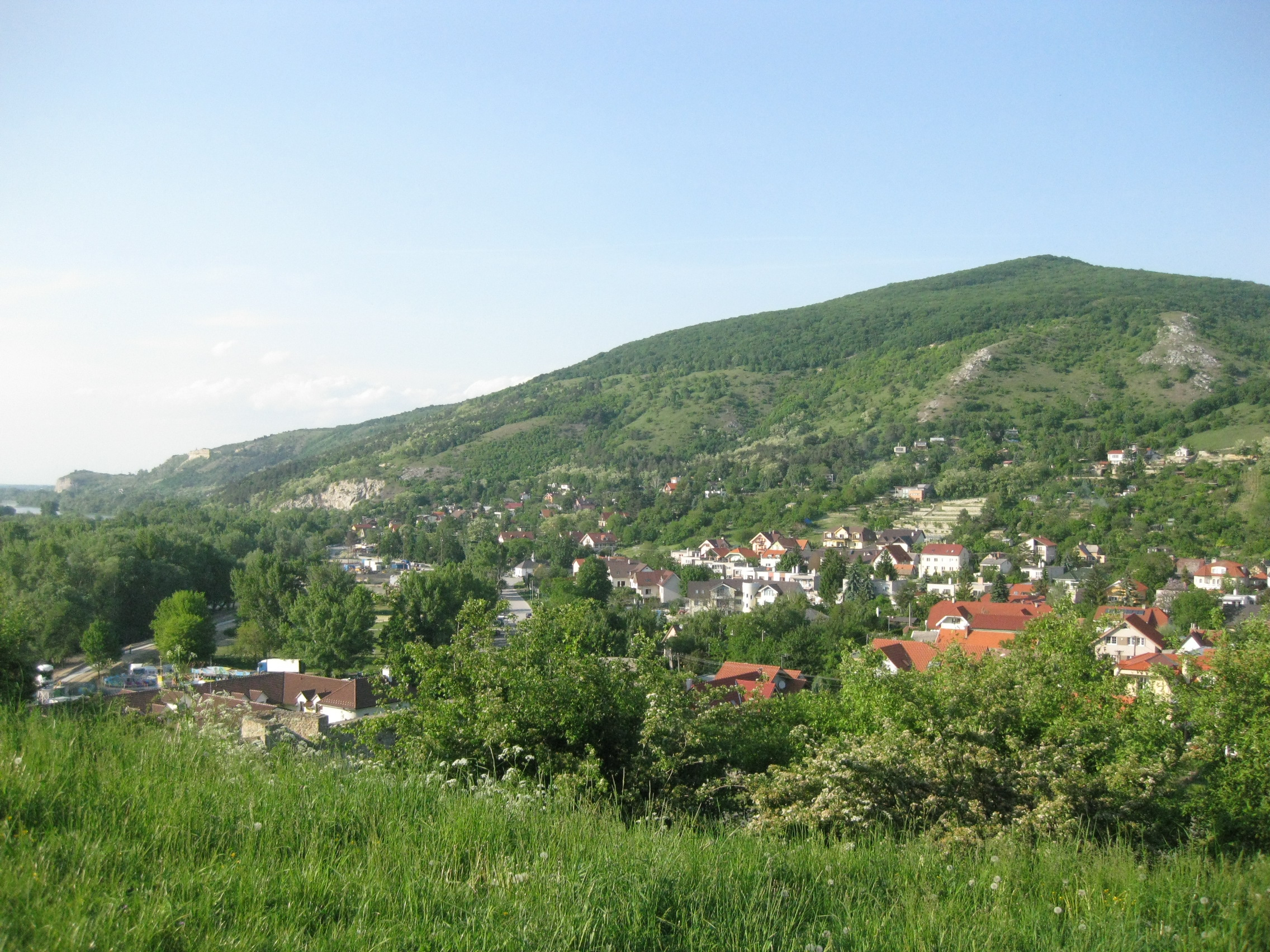 Village of Devin